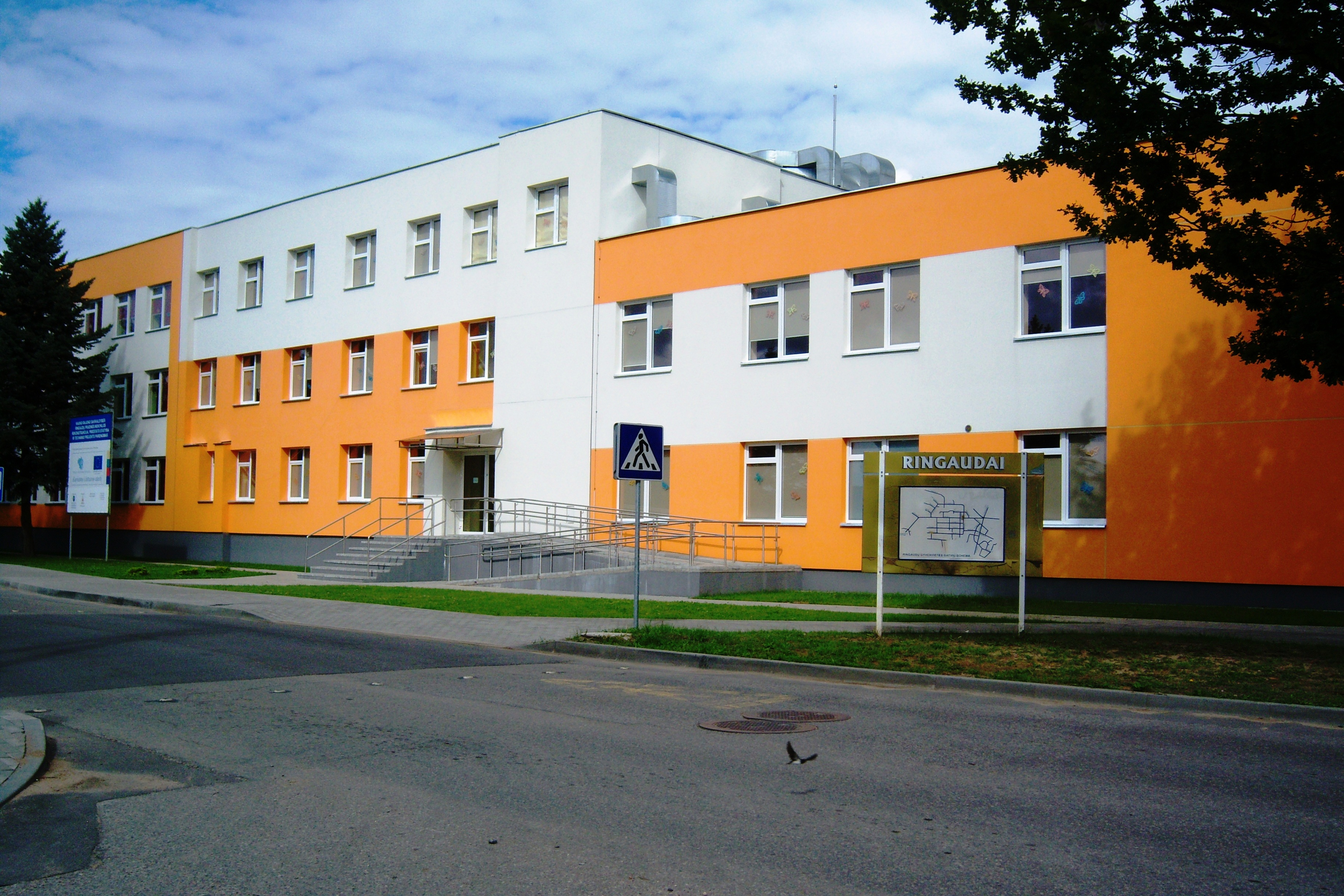 Ringaudai Primary School, Kaunas district, Lithuania